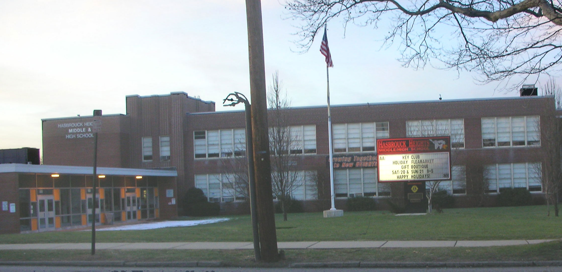 High School of LIHGG